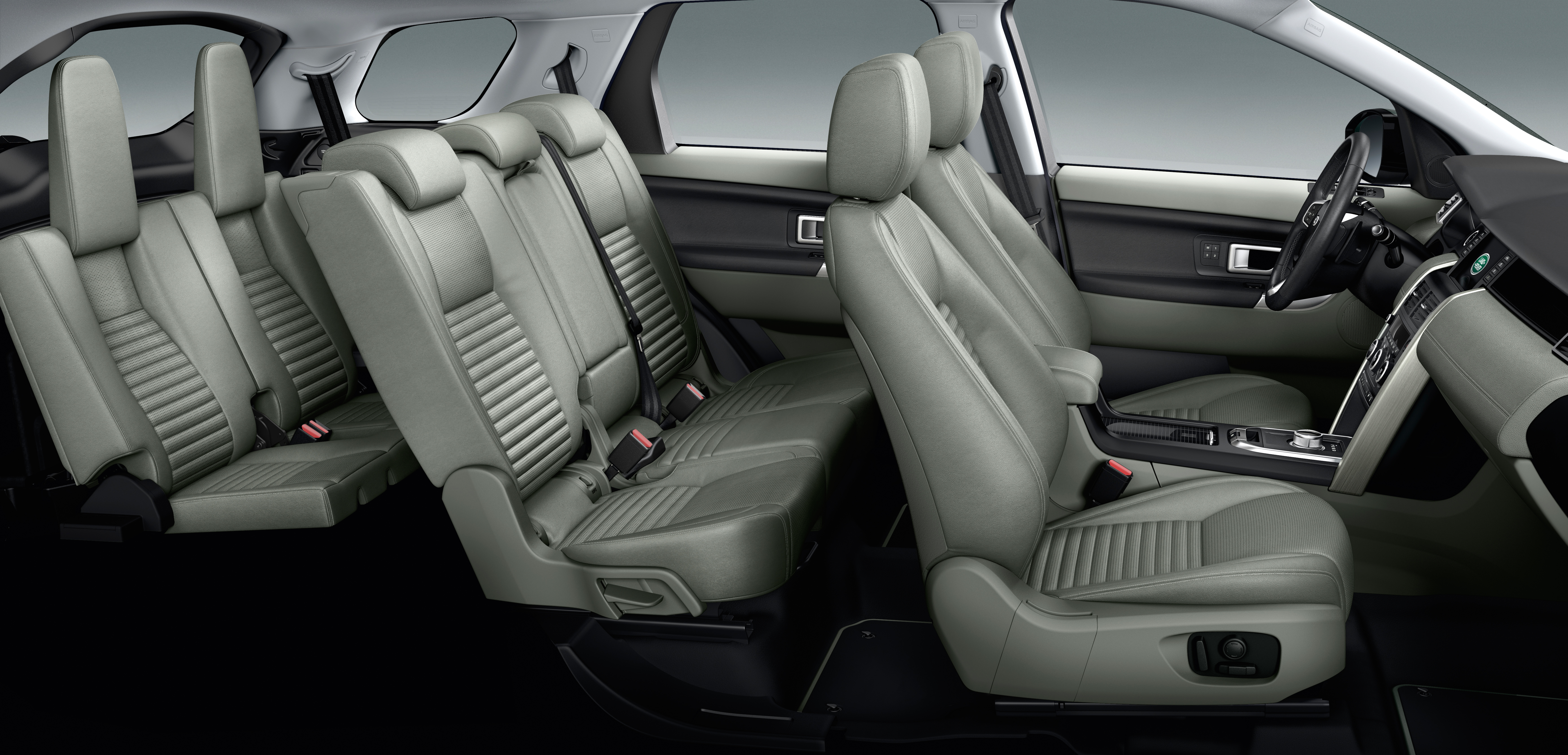 Land Rover has revealed the new Discovery Sport, the world’s most versatile and capable premium compact SUV. The first member of the new Discovery family, Discovery Sport, features 5+2 seating in a footprint no larger than existing 5-seat premium SUVs. Read all about it on